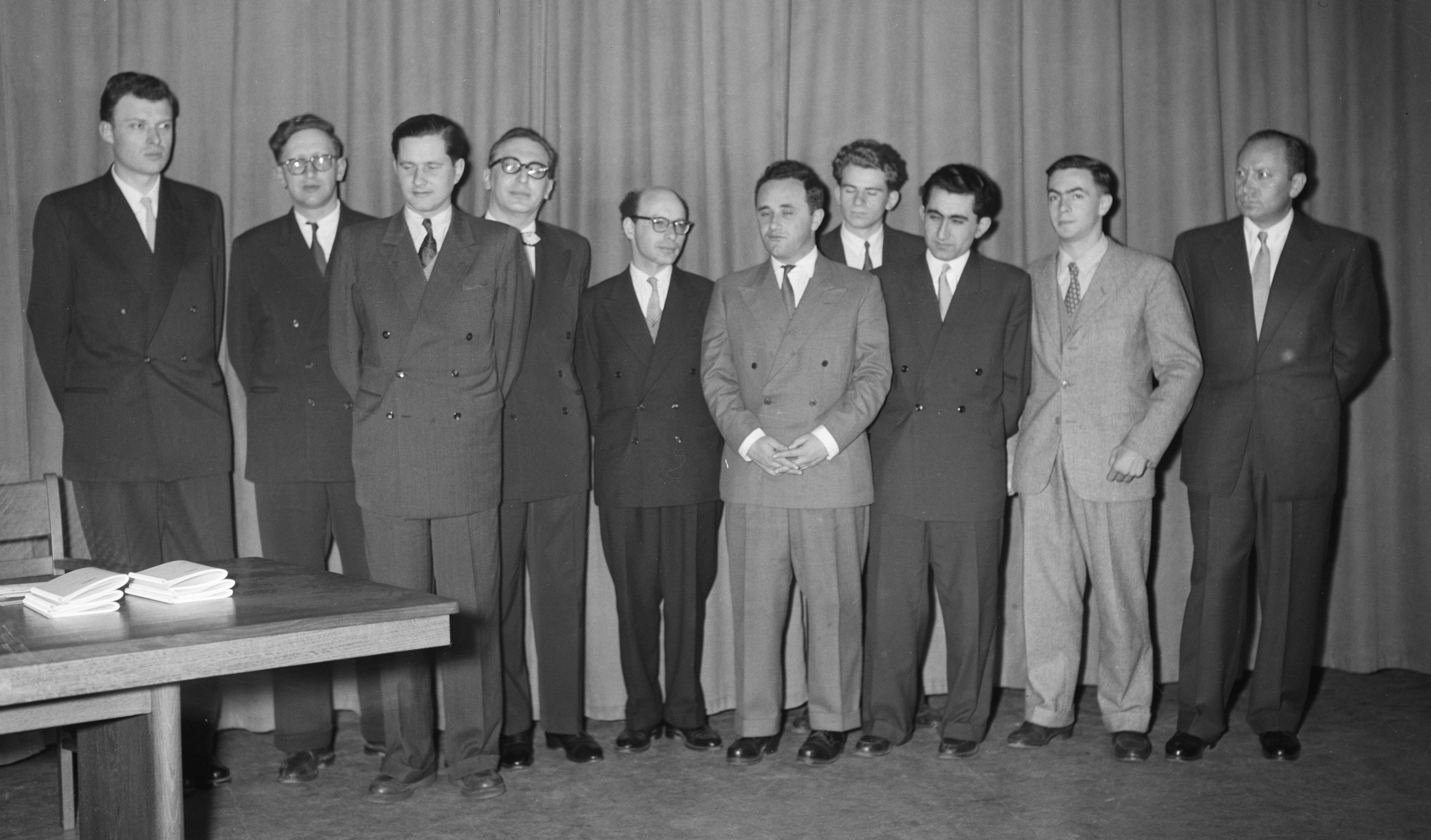 Chess world candidates tournament, Amsterdam 1956. Left to right: Miroslav Filip, Vasily Smyslov, Paul Keres, Herman Pilnik, David Bronstein, Efim Geller, Boris Spassky, Tigran Petrosian, Oscar Panno, László Szabo.